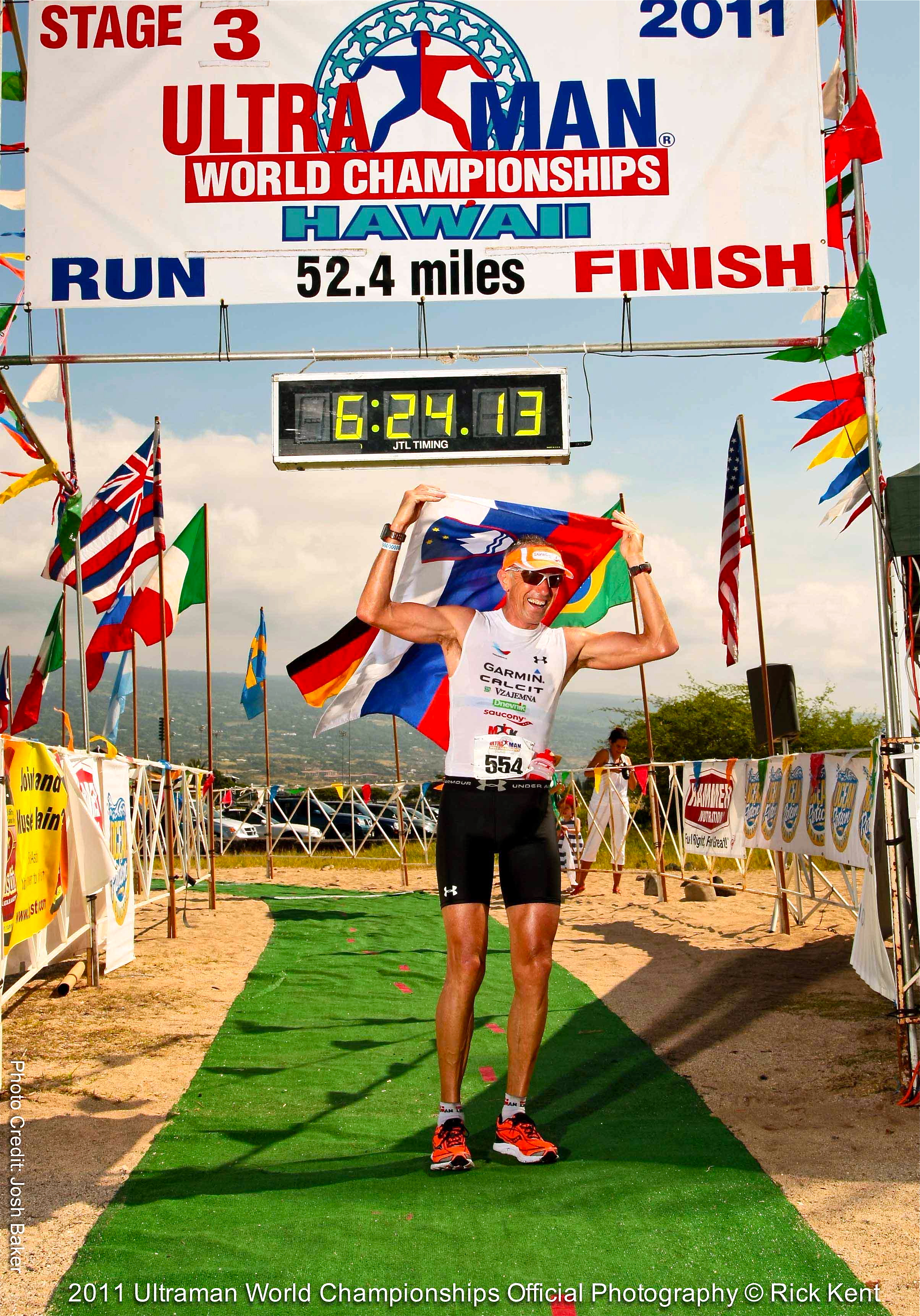 Ultraman Finishers often show national pride by waving flags at the run finish. Photo by official event photographer Rick©Kkent